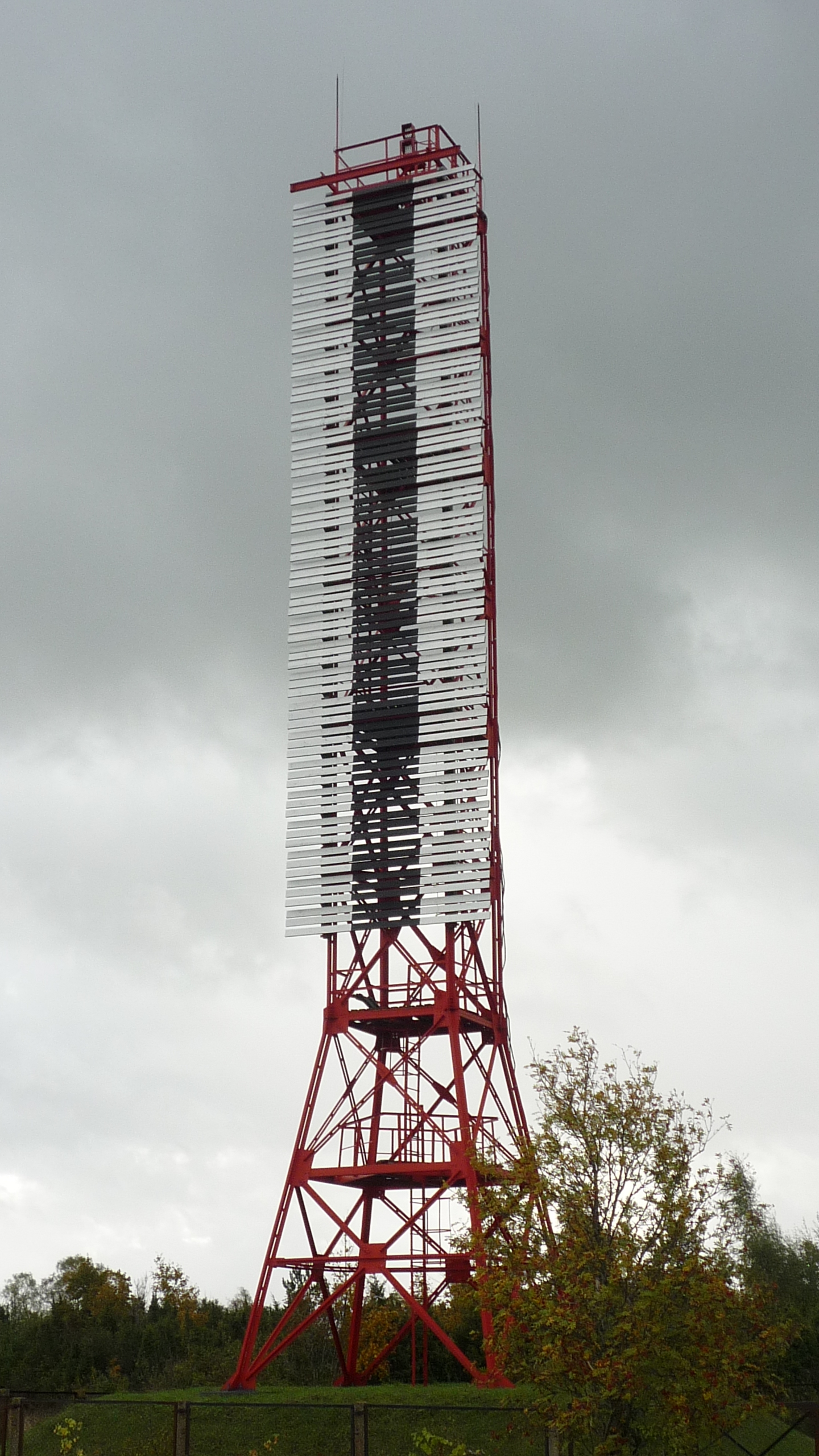 Raugi front lightbeacon. Vahtraste village, Muhu parish, Saare county, Estonia.